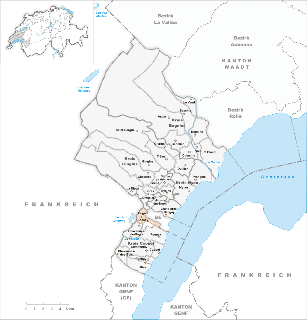 Municipality Bogis-Bossey